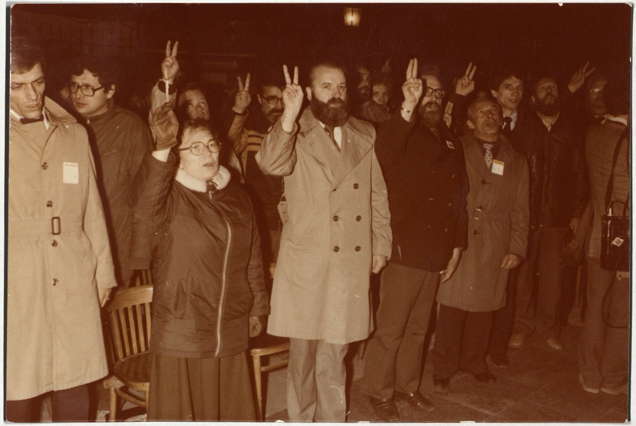 Photo shows the participants of the mass for the homeland. In the first row: Anna Walentynowicz, Seweryn Jaworski, Marian Jurczyk. Mass was held in St. Stanislaus Kostka in Warsaw Żoliborz